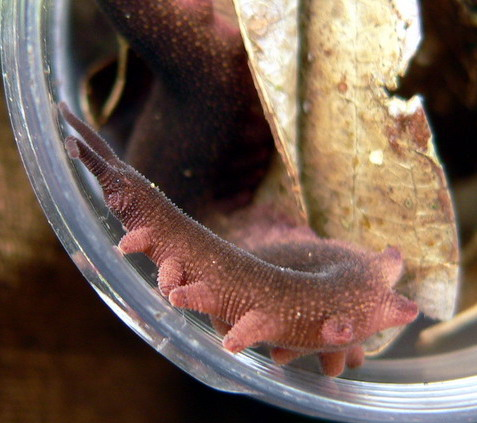 First known specimen of Eoperipatus totoro, Cat Tien National Park, Vietnam, 24 November 2007